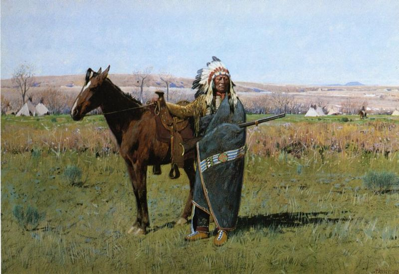 Chief Spotted Tail.